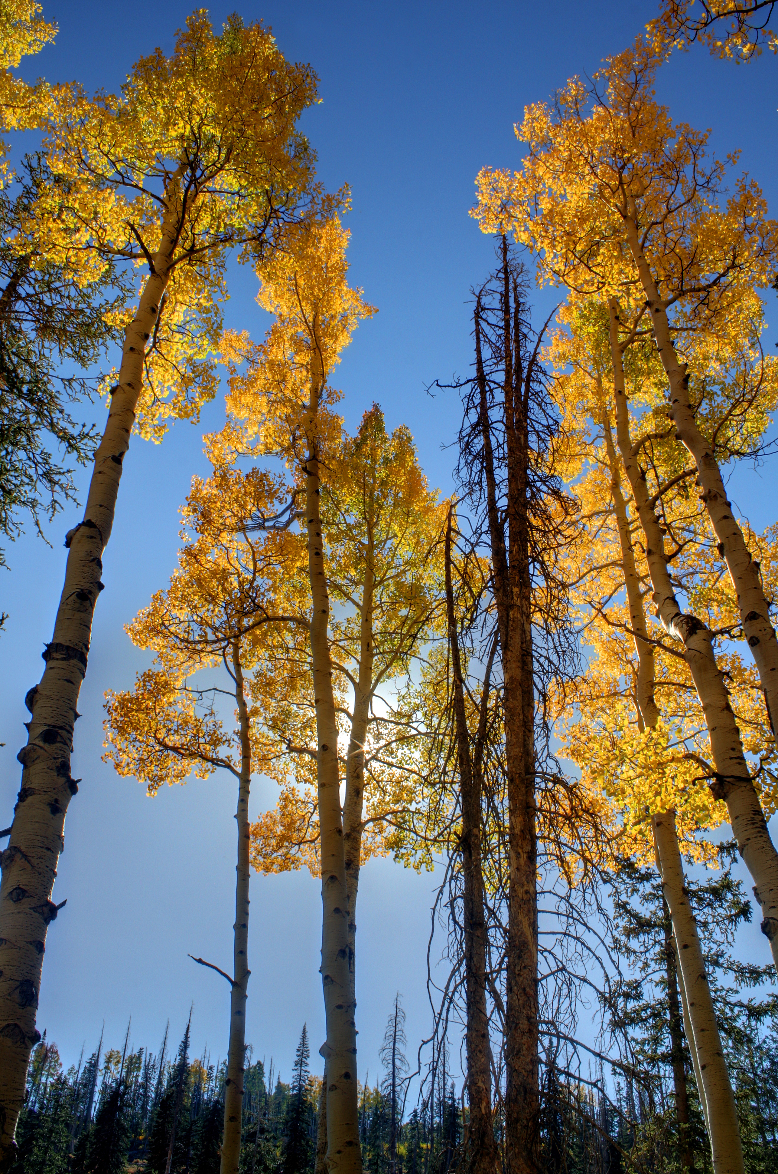 Aspen trees (Populus tremuloides) showing their golden autumn colors near Cedar Breaks.